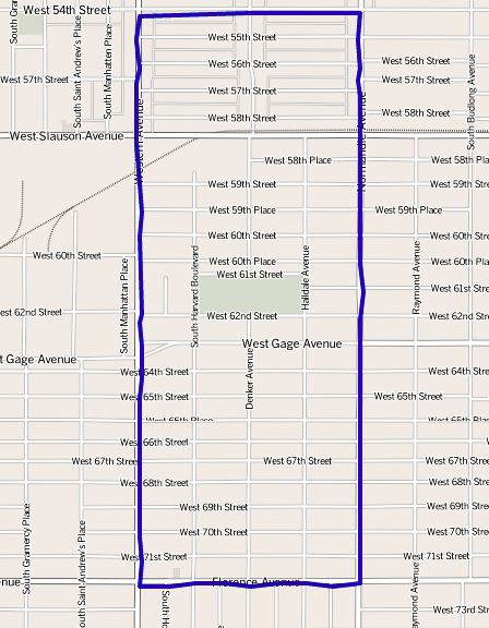 A map of the Harvard Park neighborhood in South Los Angeles, California. This map may be incomplete, and may contain errors. Don't rely solely on it for navigation.